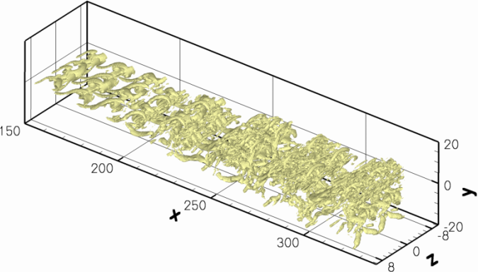 vortices in mixing layer from direct numerical simulation